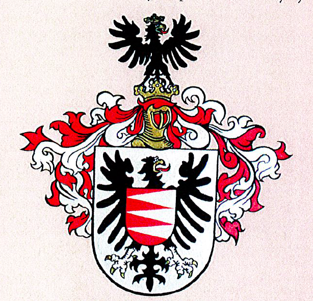 de Guoth